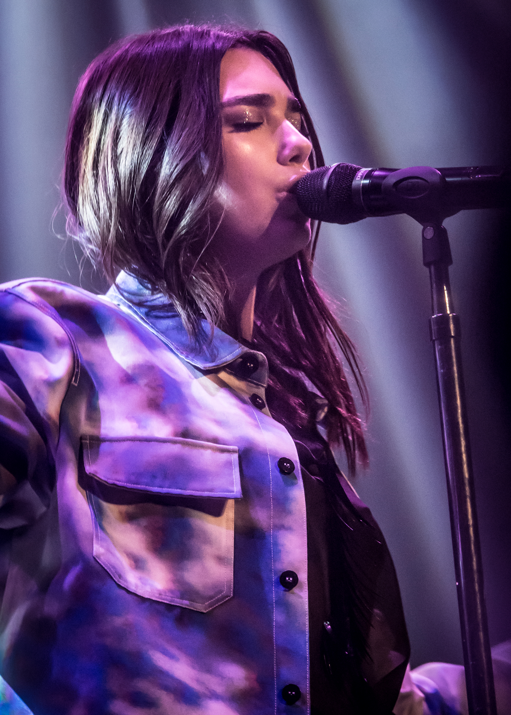 Dua Lipa performing live at The Belasco Theater in downtown Los Angeles, California, on Wednesday, March 15, 2017.